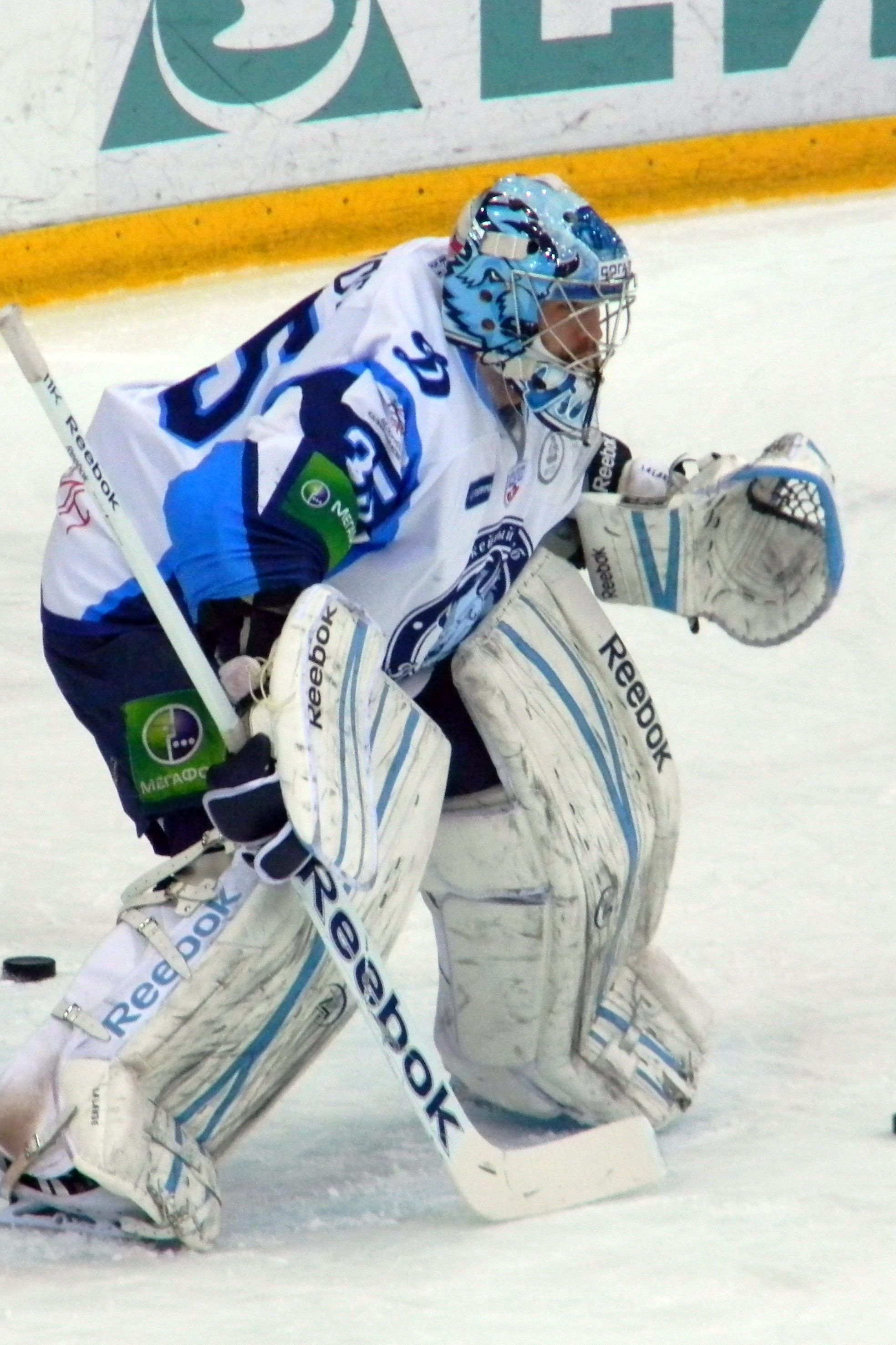 Kevin Lalande, a Canadian ice hockey goalkeeper from Dinamo Minsk